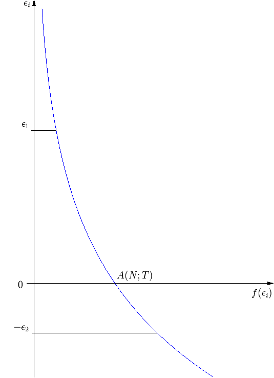 Representative graph of Maxwell-Boltzmann statistics.